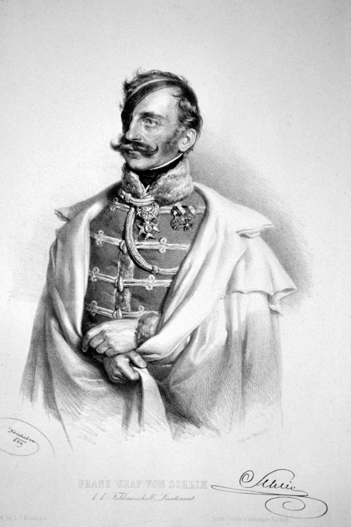 Franz Graf Schlik zu Bassano und Weisskirchen (1789-1862), k. k. General der Kavallerie, Kommandeur des Maria-Theresien Ordens.